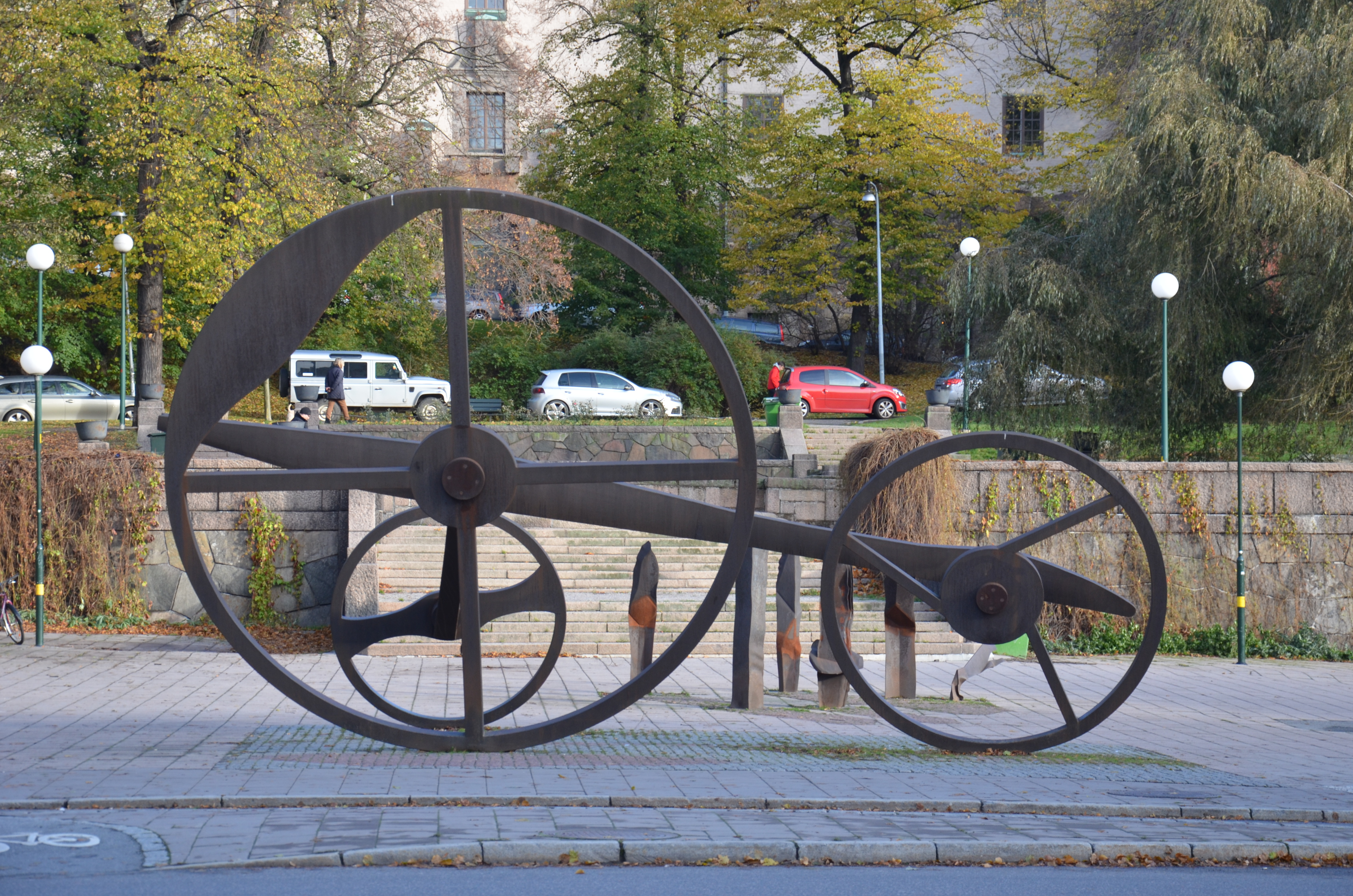 Fordon av Karl Göte Bejemark, 1973, cortenstål, Eriksbergsplan i Stockholm